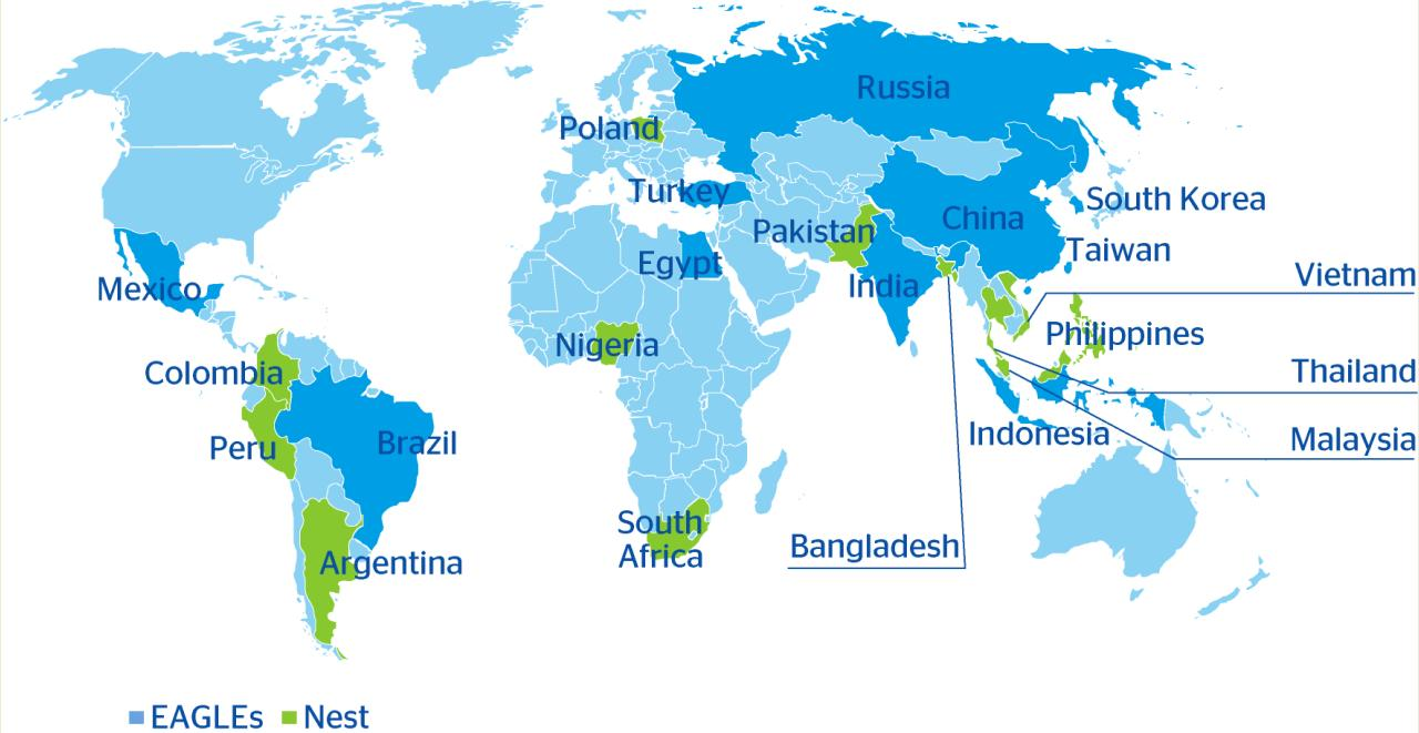 Map of Emerging Markets